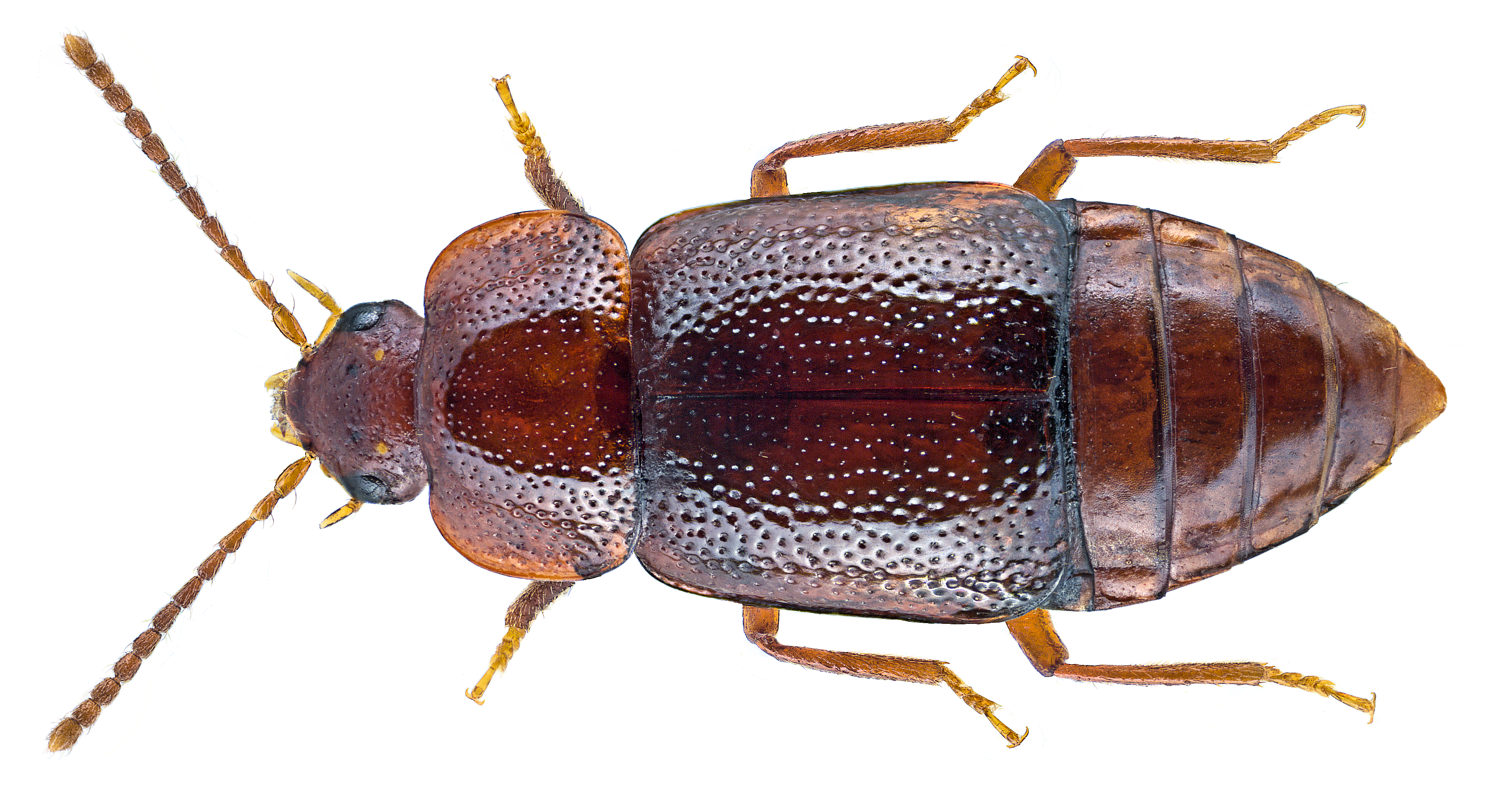 Family: Staphylinidae Size: 5,8 mm (4,1 to 6,0 mm) Distribution: from Spain to Southern Northern Europe and Eastern Europe Ecology: eurytop, in wet and dry locations Location: Germany, Rheinland-Pfalz, Altenahr, Langfigtal leg.det. J.Scheuern, 15.III.1988 Photo: U.Schmidt, 2015